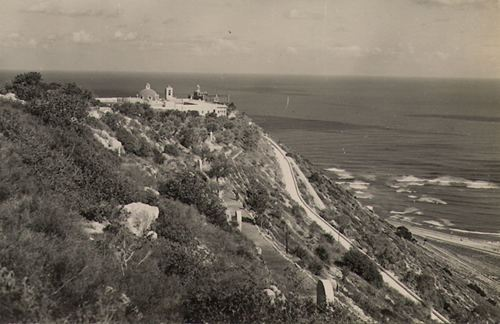 Carmelite monastery atop of mt. Carmel in Haifa, Israel, before the town is built (1890).